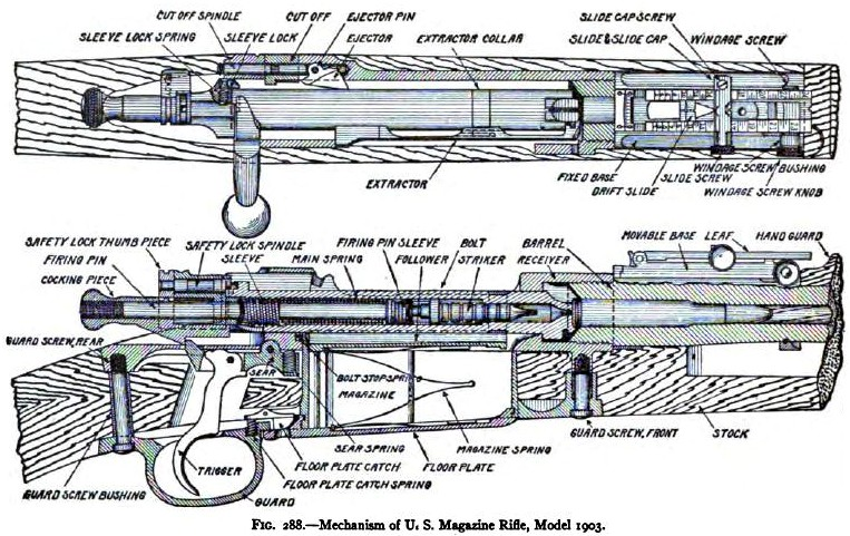 Diagram showing mechanism of US M1903 service rifle.